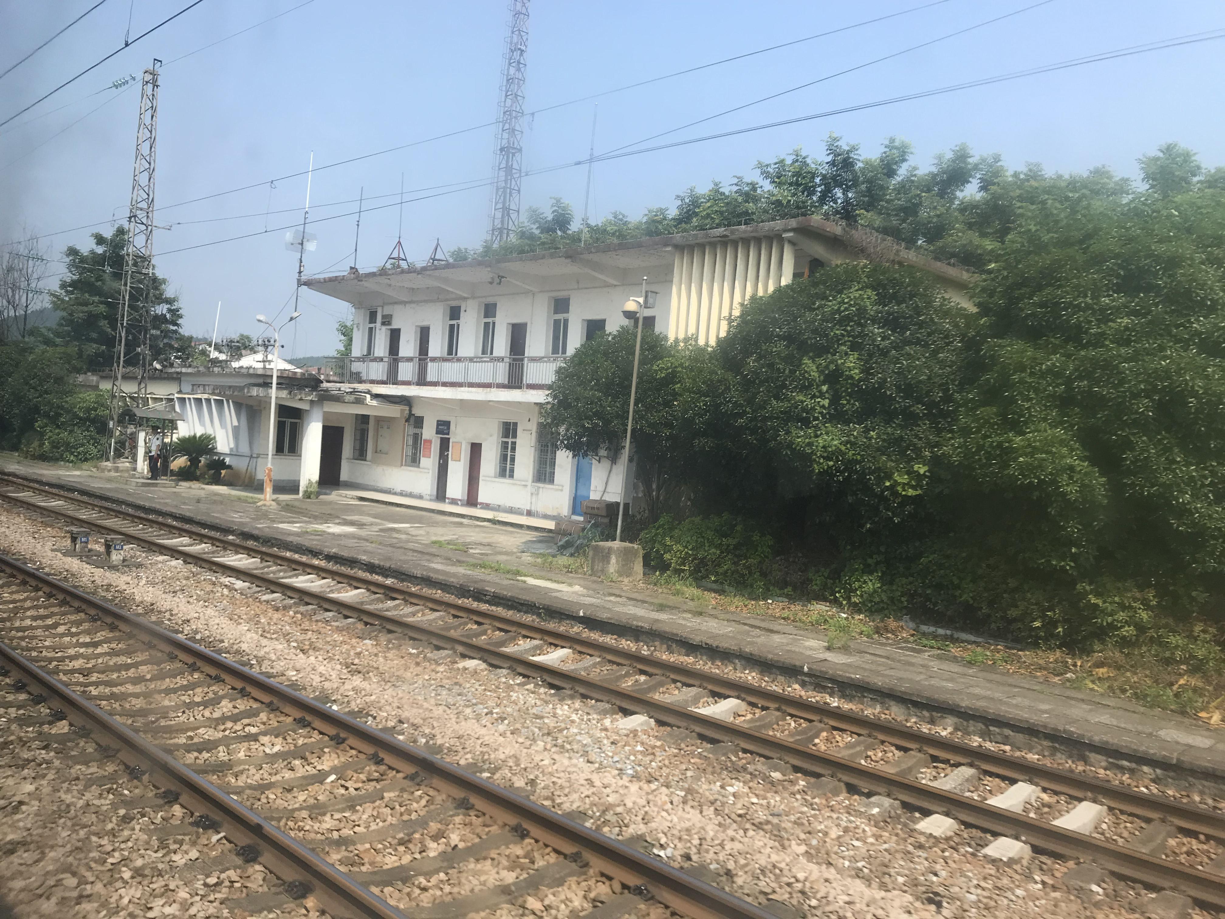 The first station by GRGC